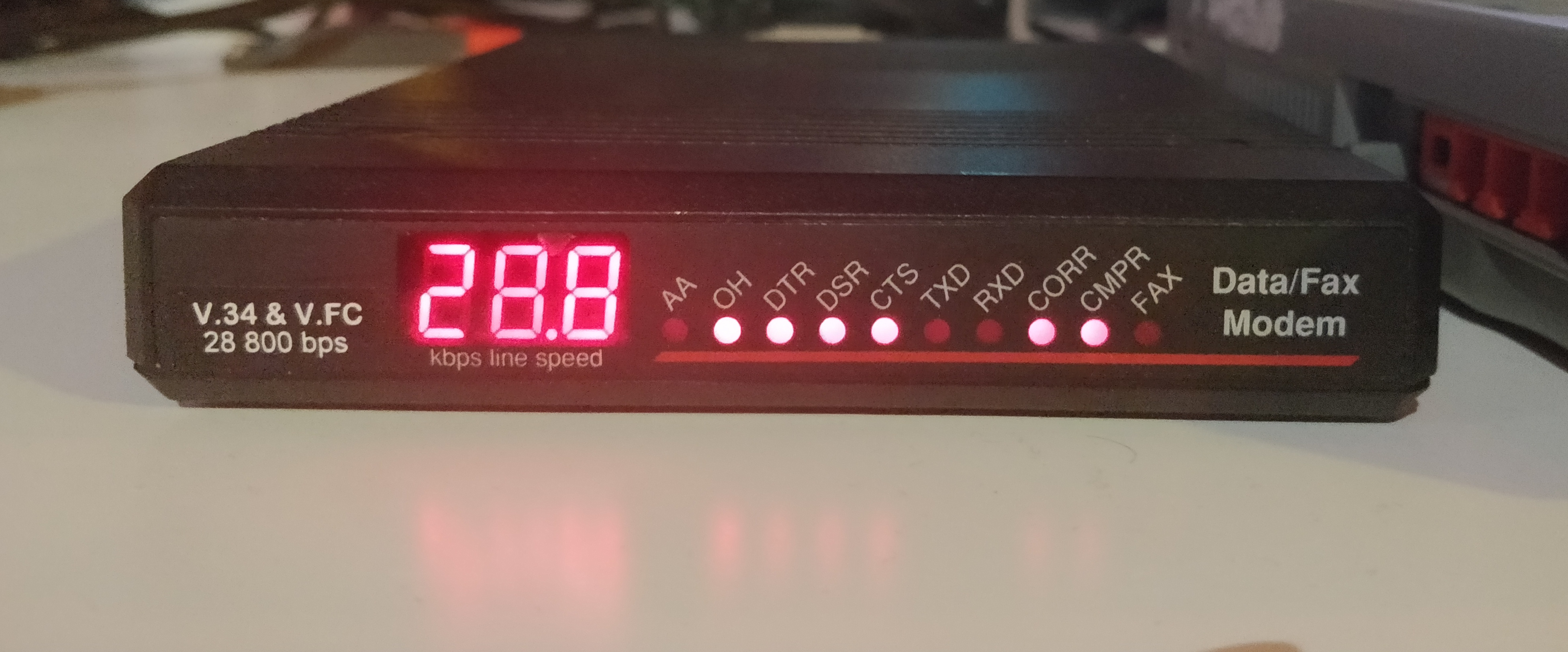 V34 modem